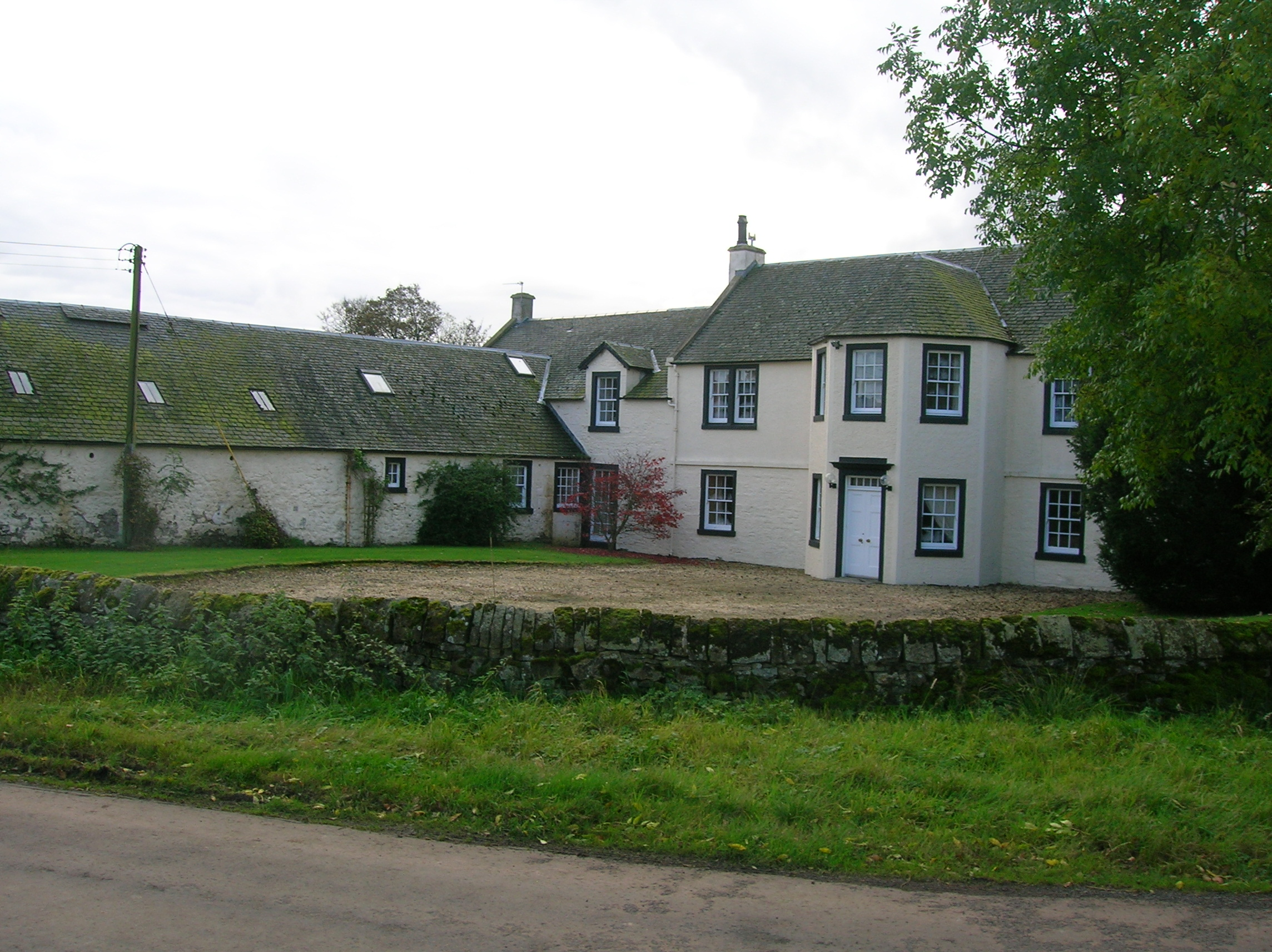 Titwood house and farm, North Ayrshire, Scotland.